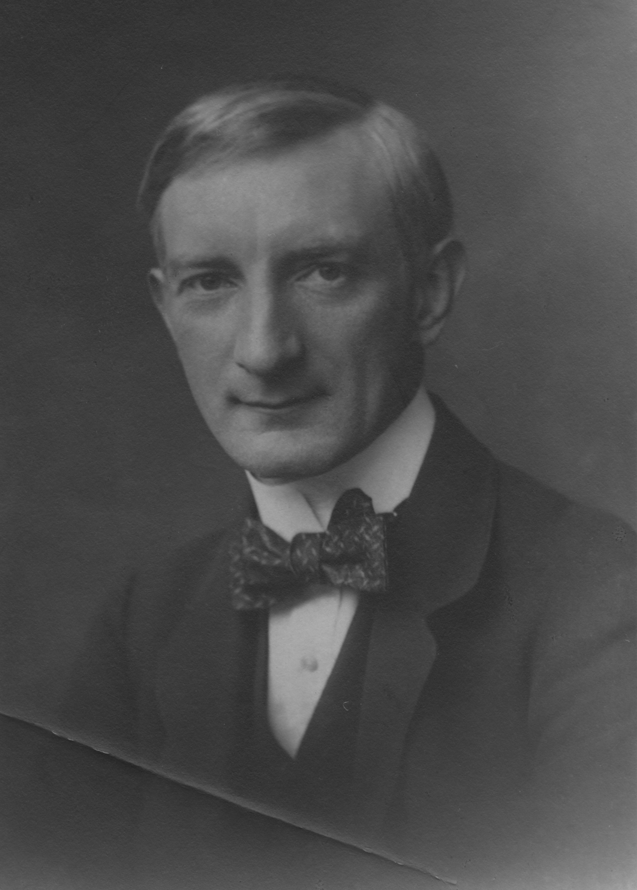 IMAGELIBRARY/678 Persistent URL: William Henry Beveridge (1879-1963) was a student at the London School of Economics in 1903-04 and its Director from 1919-37. His most famous contribution to society is the Beveridge Report (officially, the Social Insurance and Allied Services Report) of 1942, the basis of the 1945-51 Labour Government's legislation program for social reform.